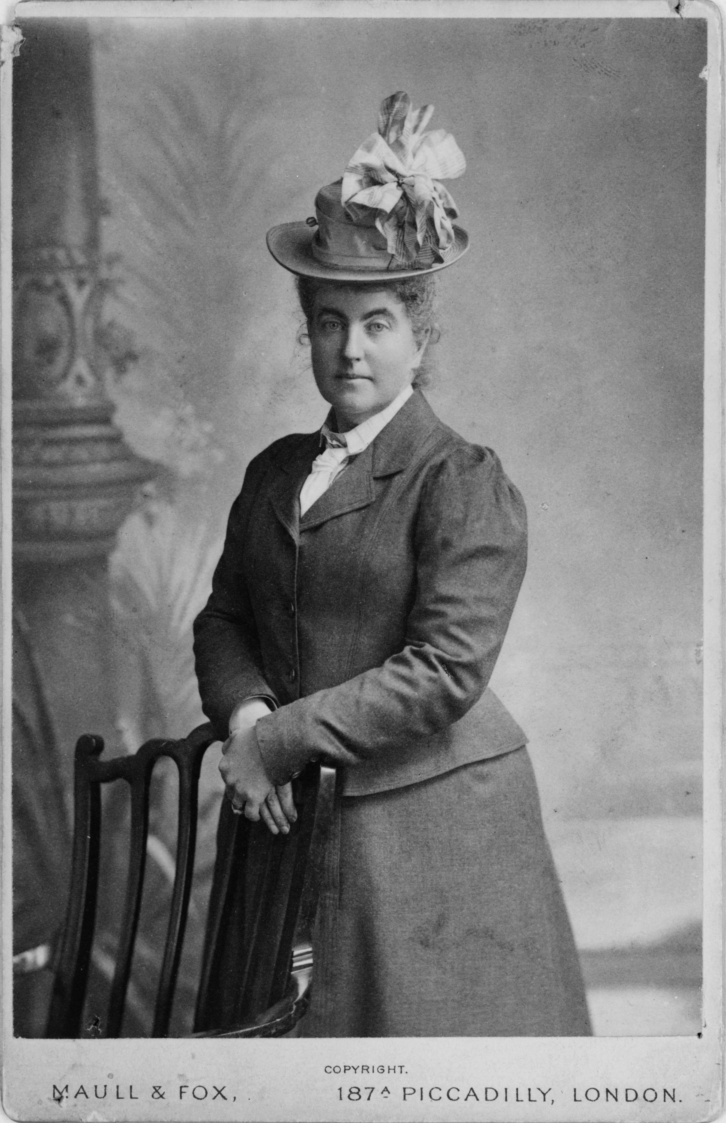 Fanny Bullock Workman (1859 - 1925), an American geographer, mapmaker, explorer, and mountaineer